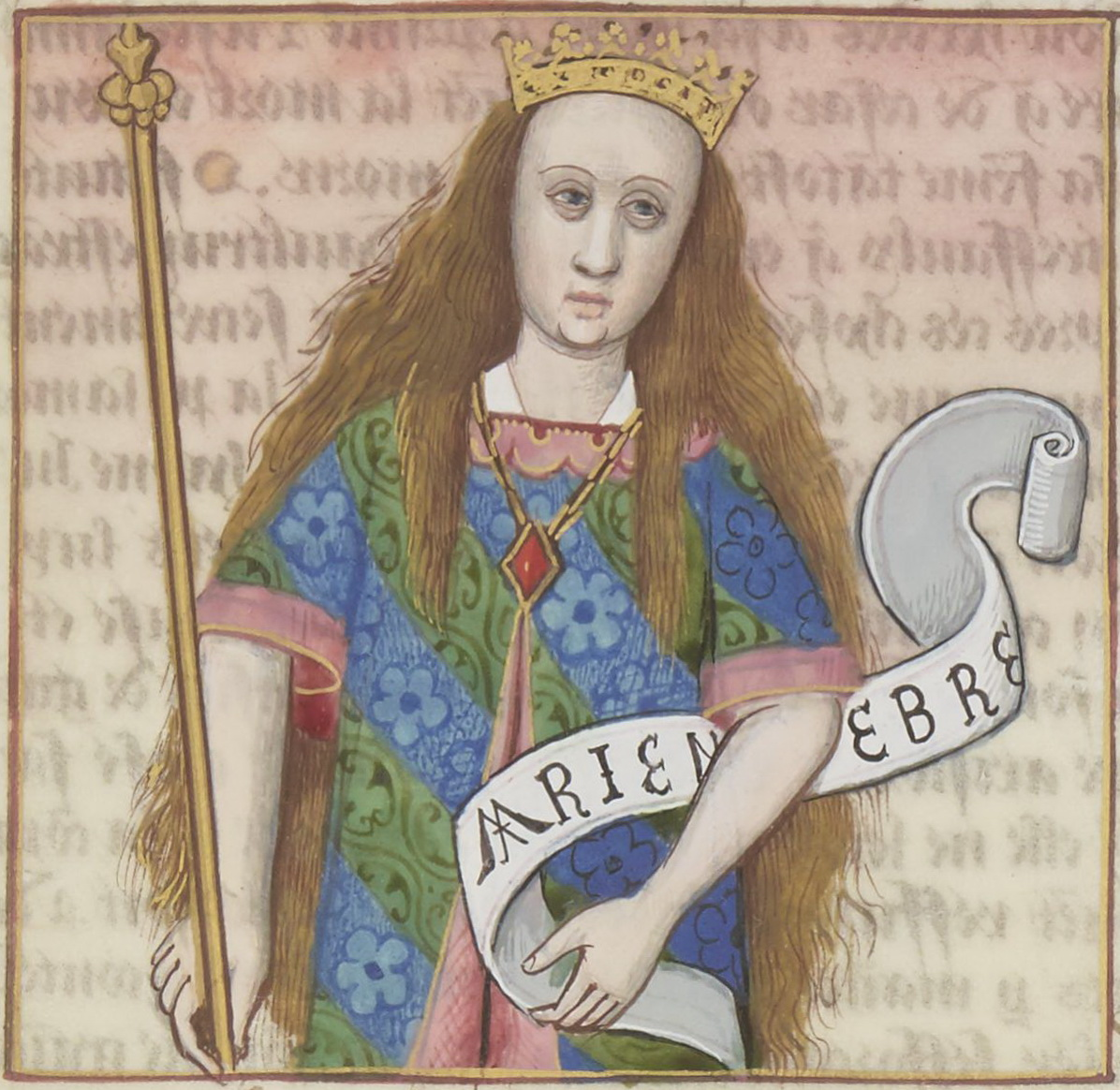 Mariamne I, also called Mariamne the Hasmonean, second wife of Herod.